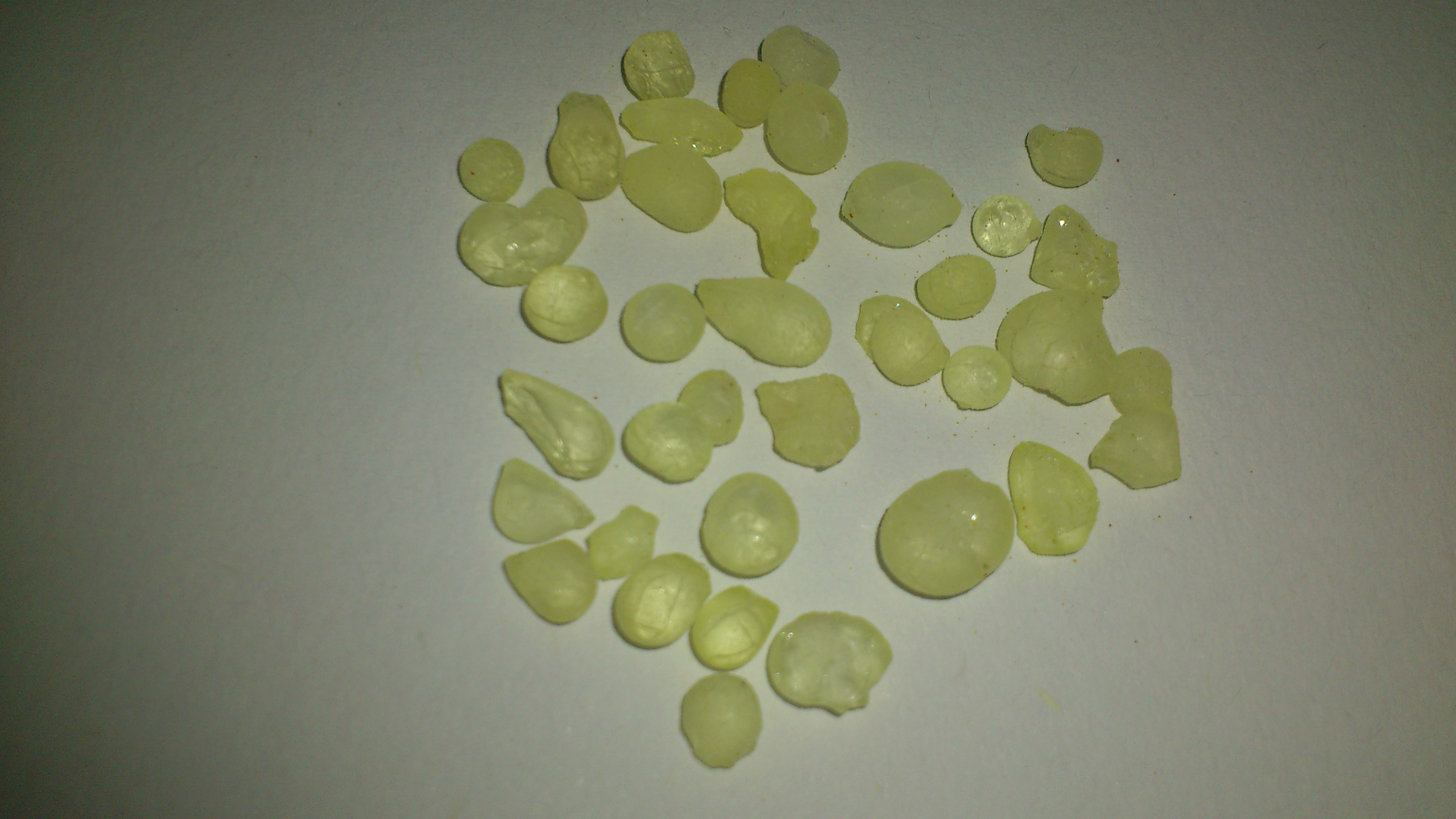 Mastic resin